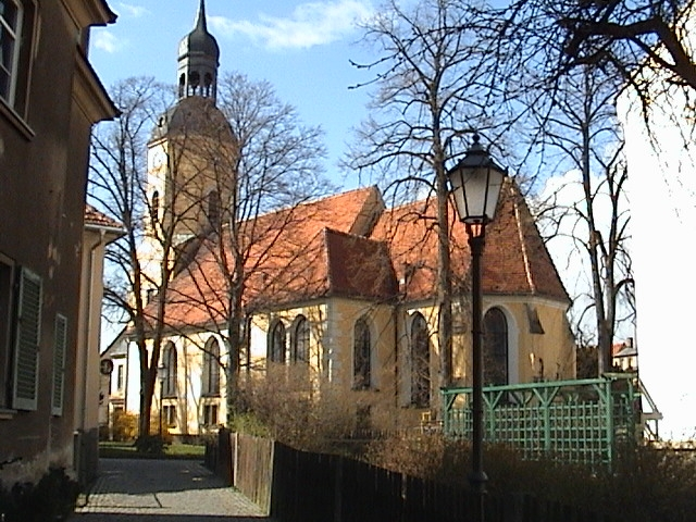 Lutheran church Radeburg